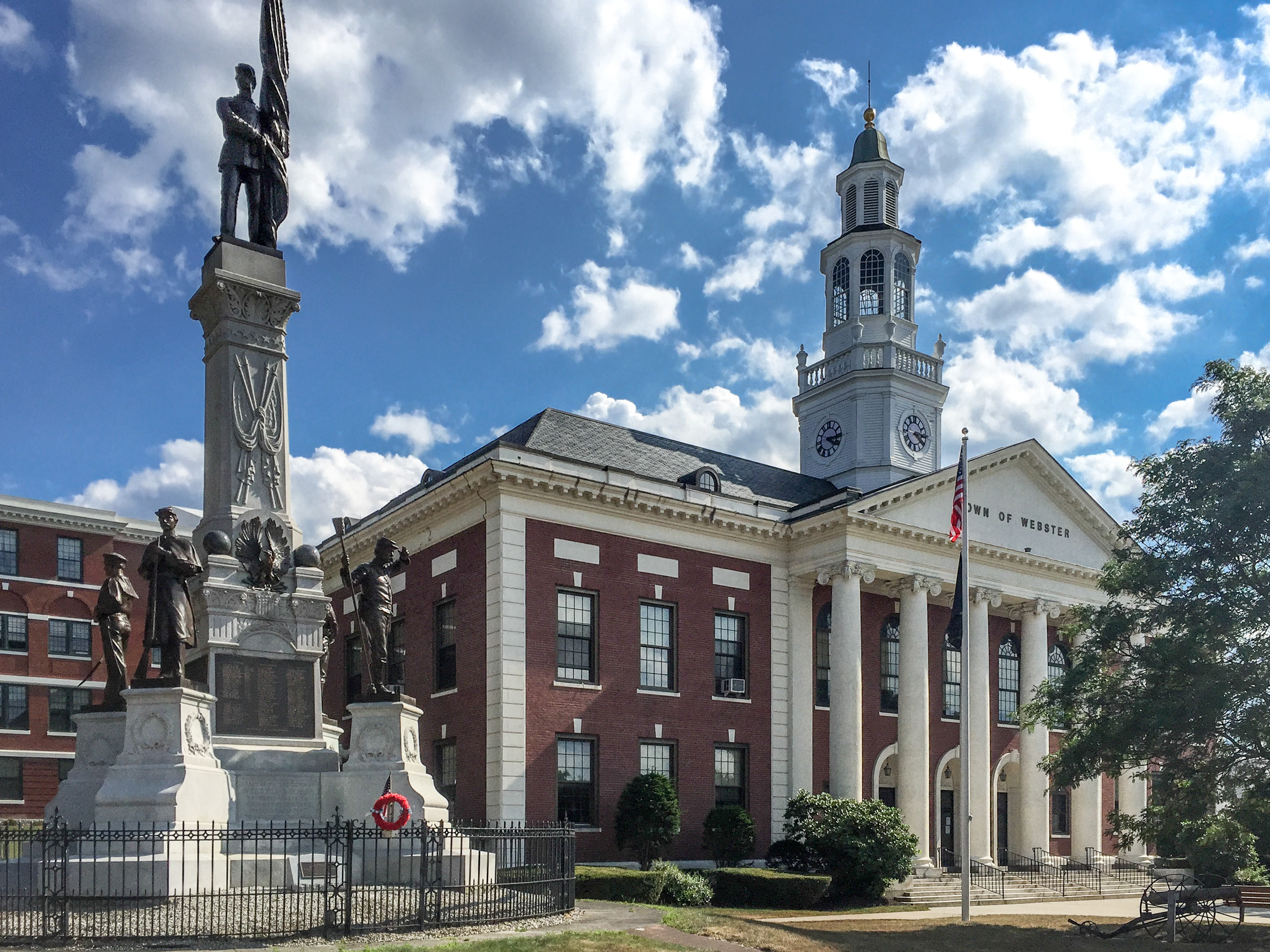 Civil War Memorial and Town Hall in Webster, Massachusetts 2016